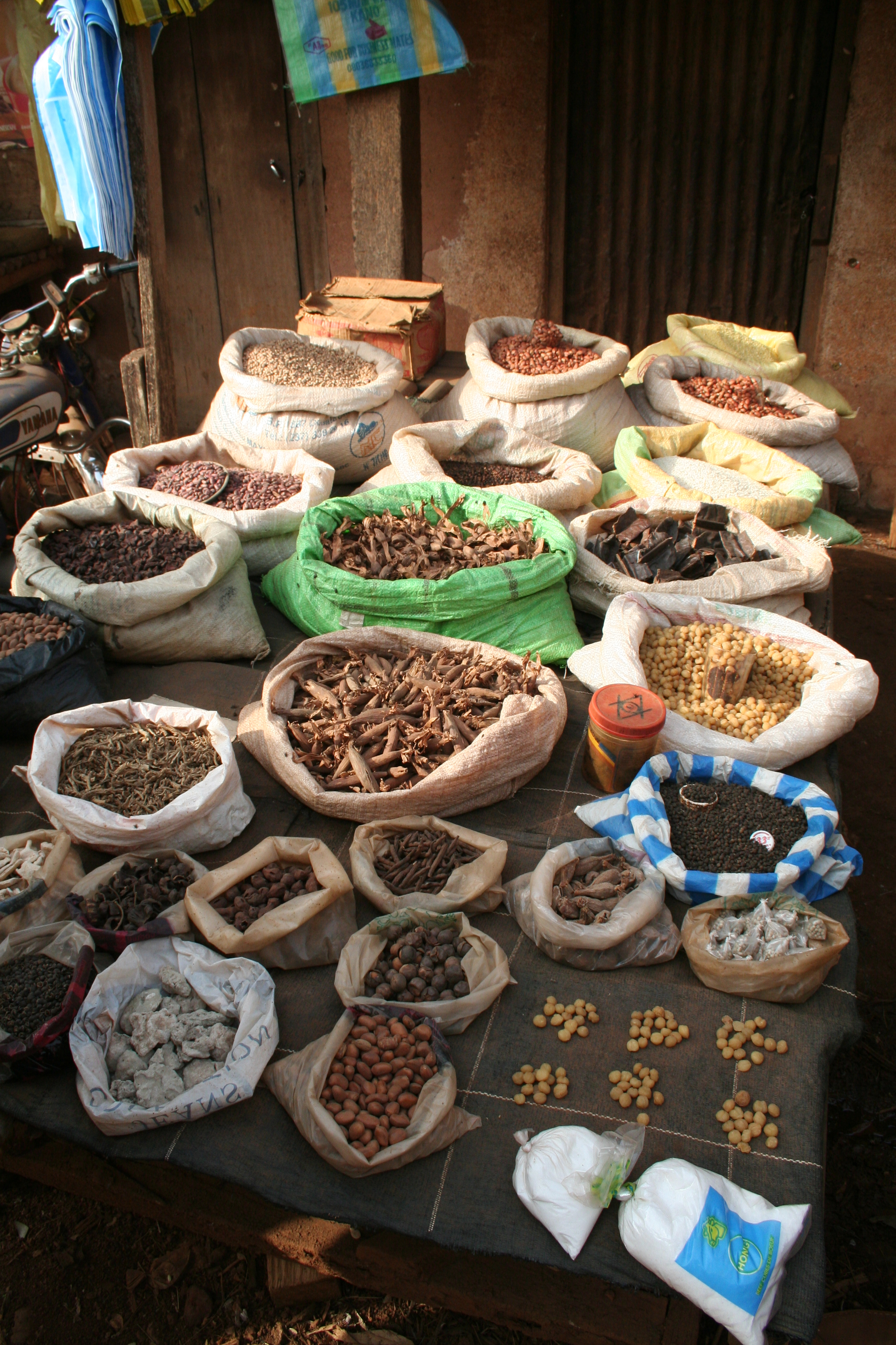 Plant products on the market of Dschang, Cameroon